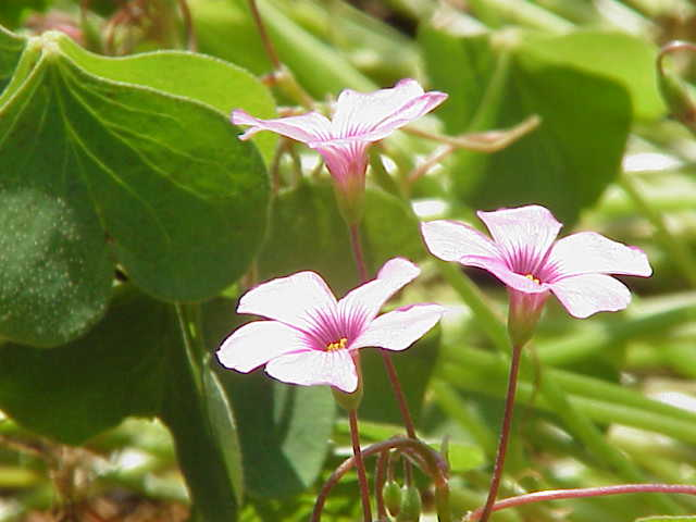 Species: Oxalis articulata rubra Family: Oxalidaceae Image No. 2